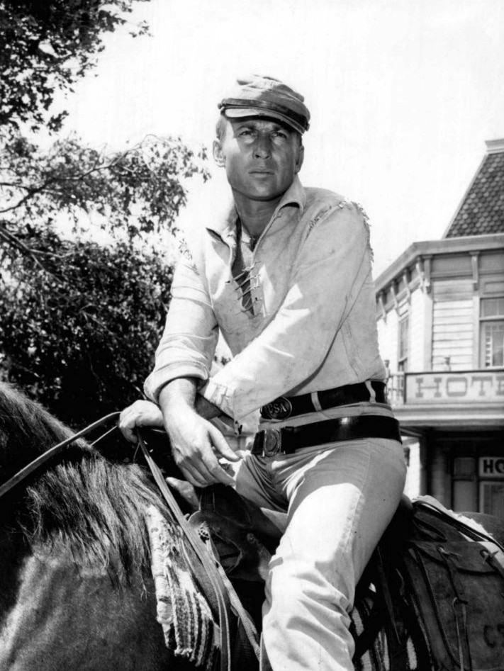 Photo of Nick Adams as Johnny Yuma from the television program The Rebel.